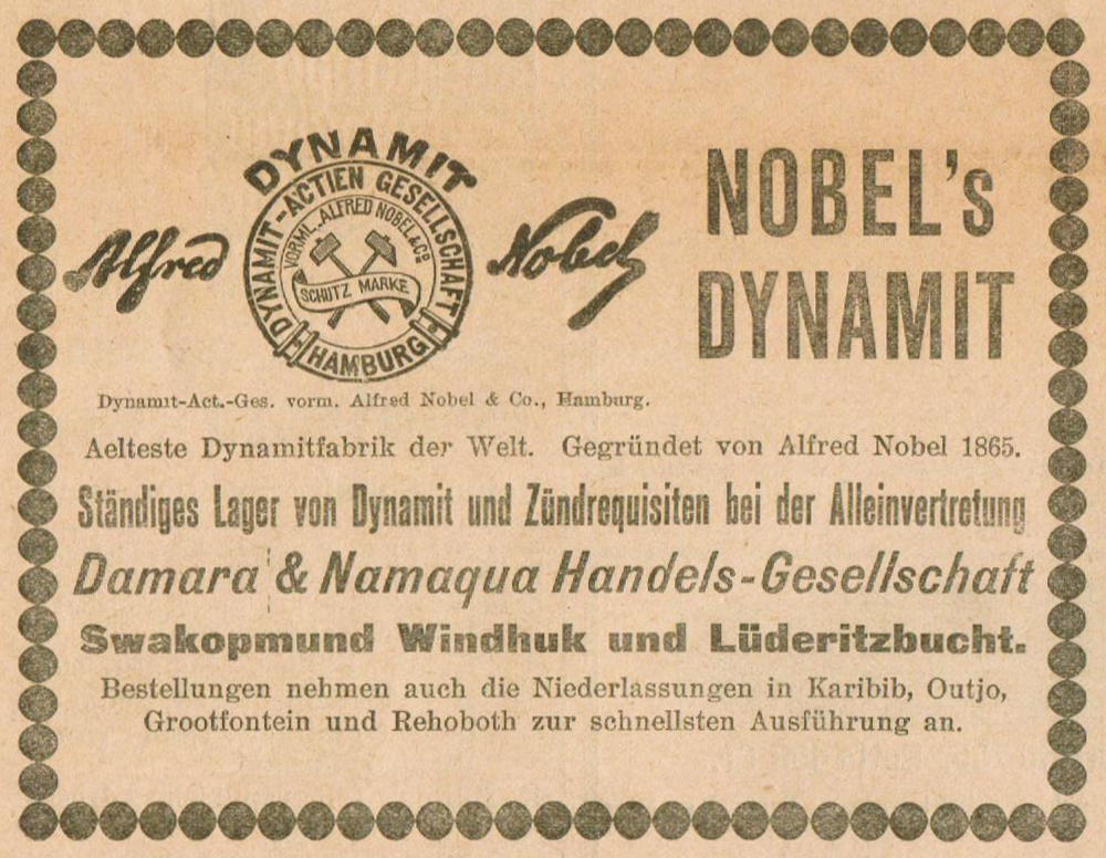 newspaper advertisement to NOBEL's DYNAMIT; "Deutsch-Südwestafrikanische Zeitung"; Swakopmund, 1906-November-10